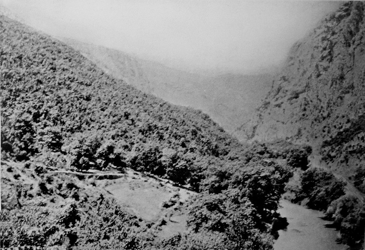 The Vale of Tempe, looking west: showing the river Pinios and the Athens-Salonika railway, site of the Battle of Tempe Gorge circa 1941